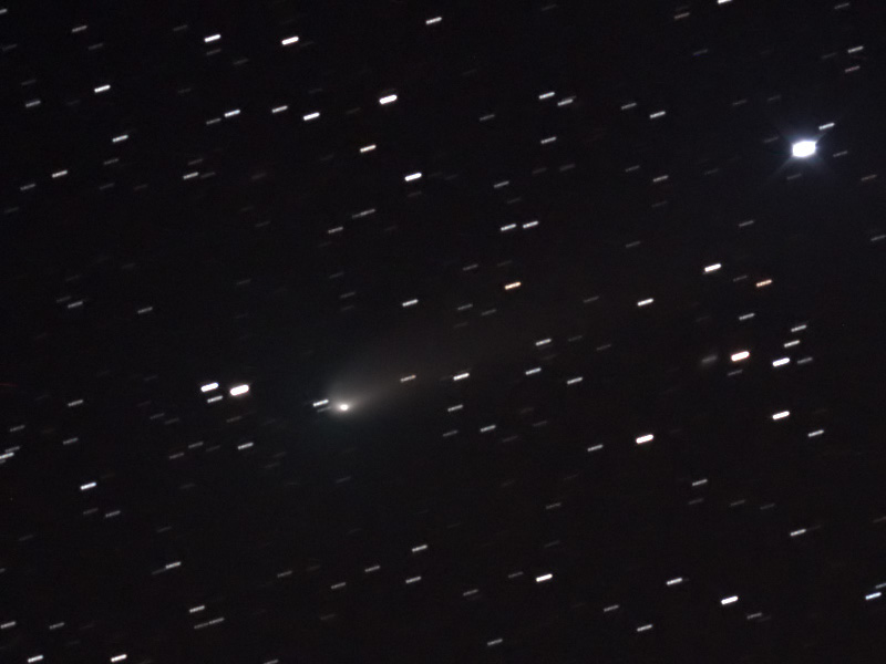 Comet 81P/Wild imaged with Takahashi Epsilon 180 reflector and SBIG ST-2000 CCD camera sum of 12 frames each of 90 seconds logarithmic scale